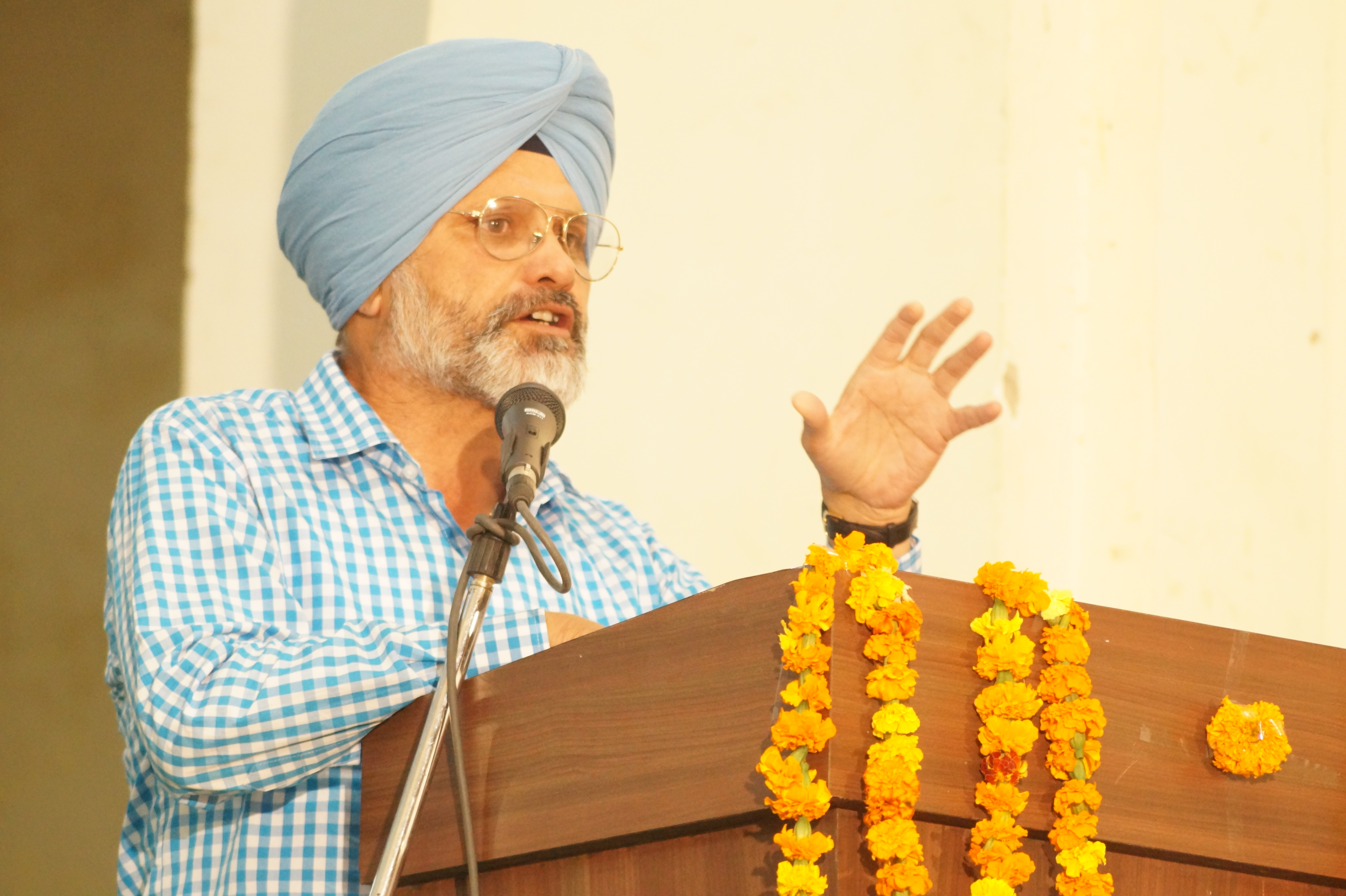 Punjabi poet